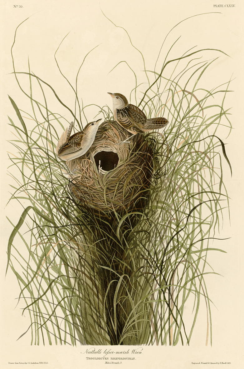 Plate 175 of Birds of America by John James Audubon depicting Nuttall's lesser-marsh Wren.